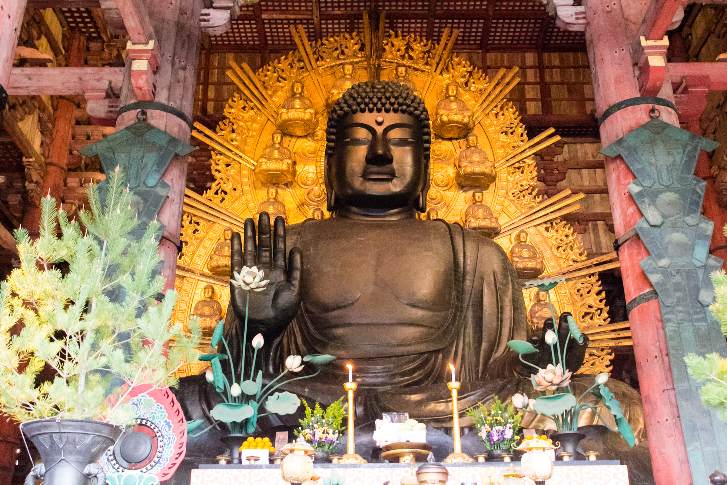 Todaiji Daibutsu, Nara